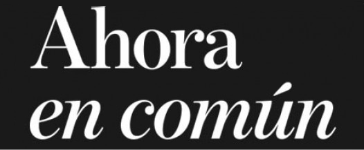 Ahora en común logo